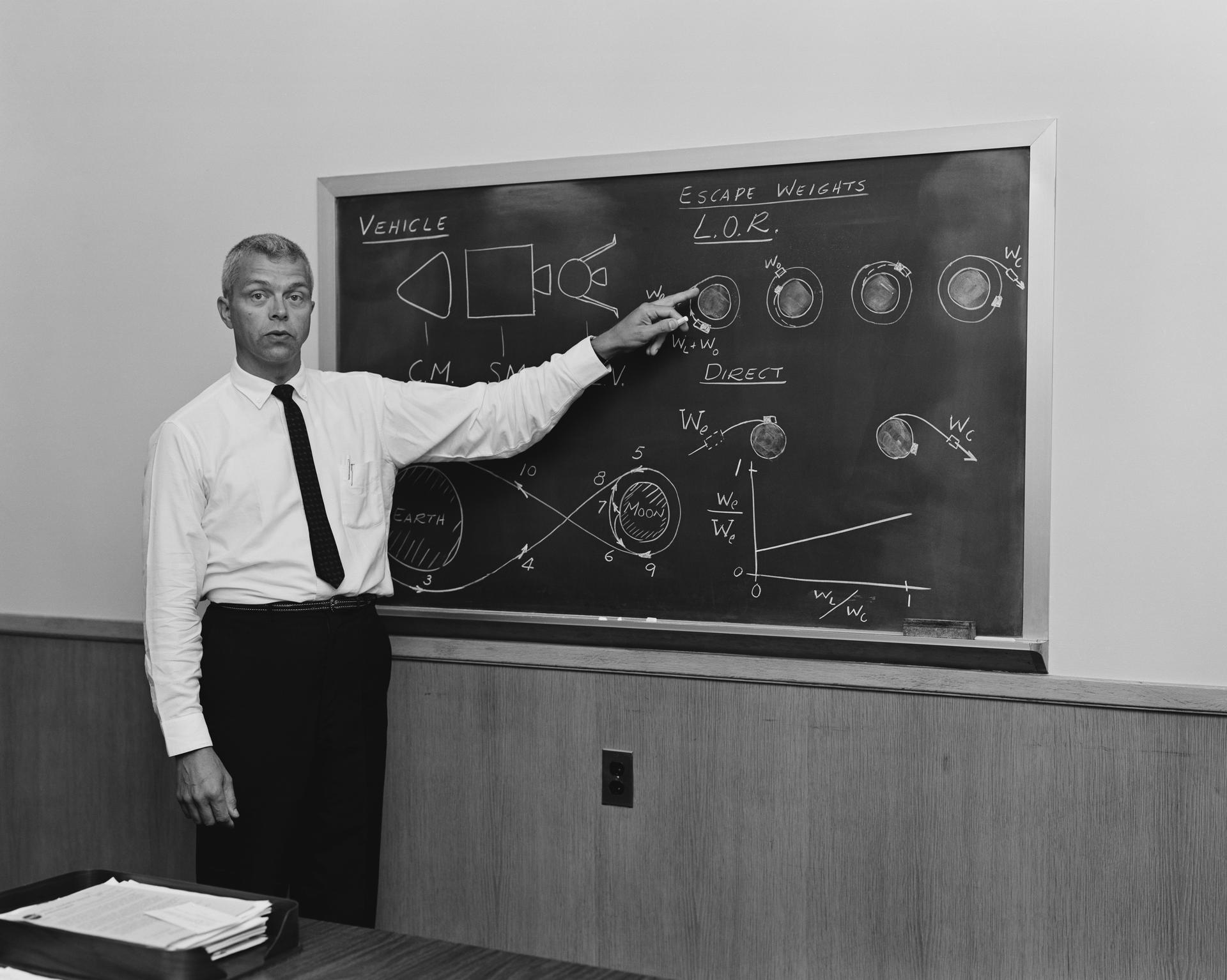 John Houbolt explaining his Lunar Orbital Rendezvous plan for landing on and returning from the moon, to be used in the then-nascent Apollo program.